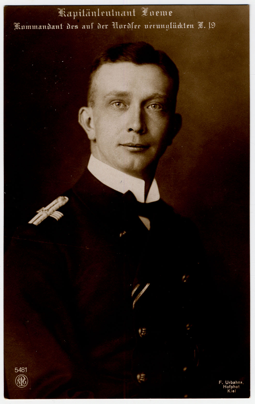 Kapitänleutnant Odo LöweDansk: Kapitänleutnant Odo Löwe